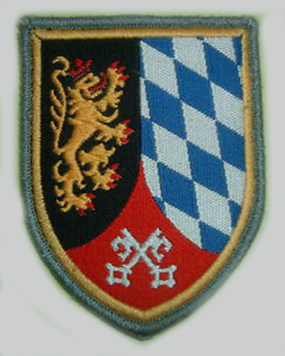 12th Tank Brigade